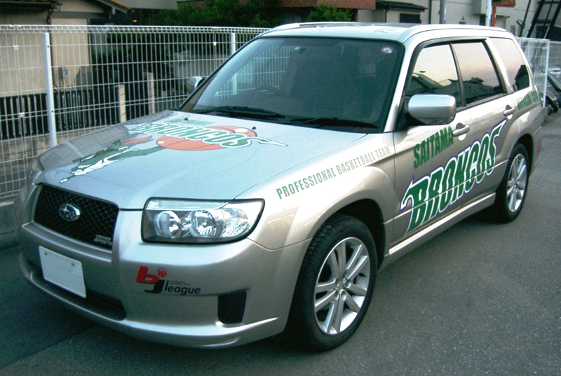 SUBARU FORESTER STI - basketball - SaitamaBroncosteam official car